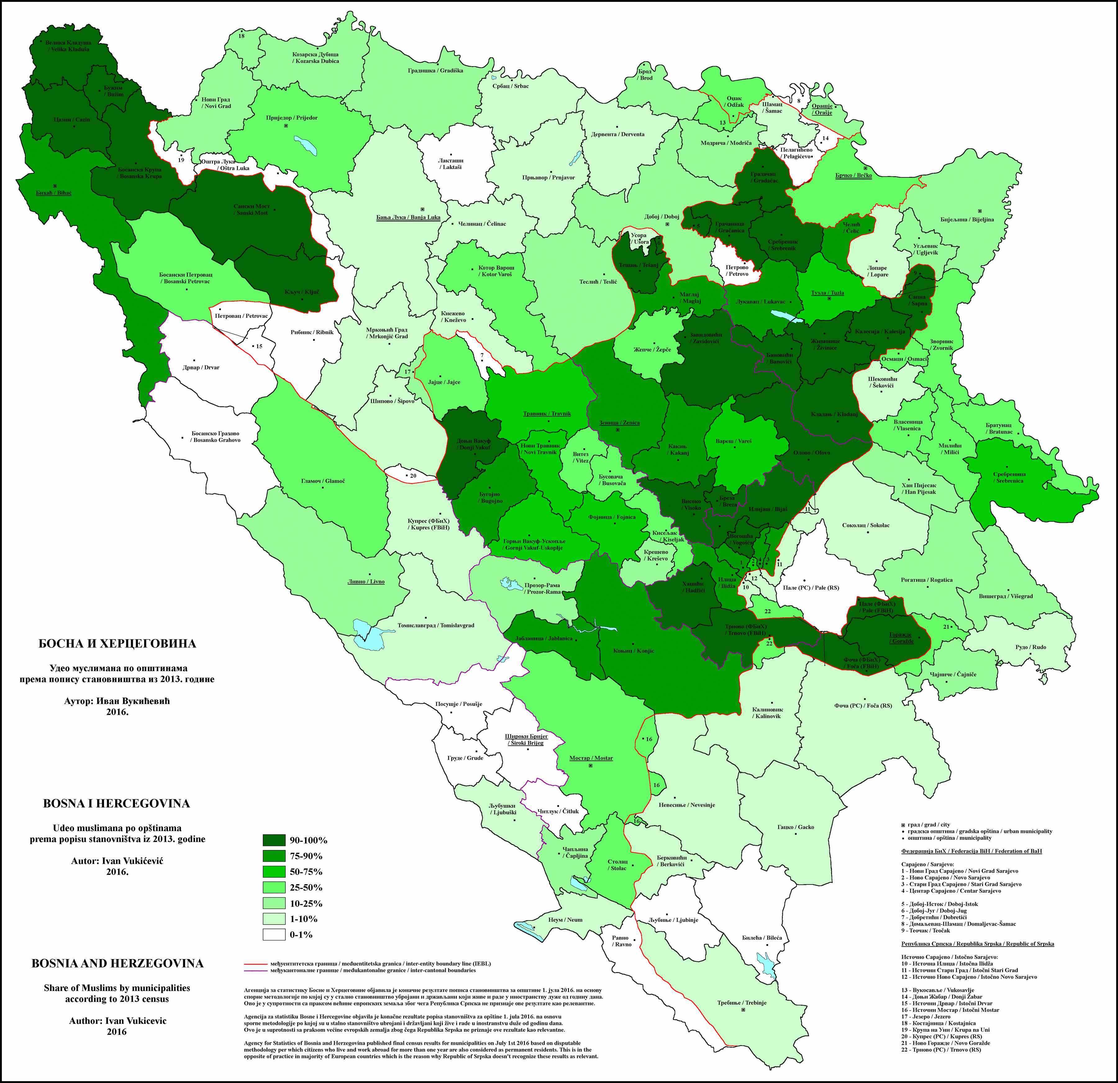 Share of Muslims in Bosnia and Herzegovina by municipalities 2013. Authorː Ivan Vukicevic - Sources: - Census of population, households and dwellings in Bosnia and Herzegovina, 2013 - Final results, Agency for statistics of Bosnian and Herzegovina, 1st of July 2016. - EU legislation on the 2011 Population and Housing Censuses, Eurostat, 2011. Recommendations for status of permanent residents followed by majority of EU member and candidate countries on page 66, Topic: Place of usual residence, paragraph (d)ː An institution shall be taken as the place of usual residence of all its residents who at the time of the census have spent, or are likely to spend, 12 months or more living there. - Public announcement, 4th of July 2016, Republic of Srpska Institute of Statistics, 4th of July 2016. With this announcement institute disputes the methodology used by Agency for statistics of Bosnia and Herzegovina.